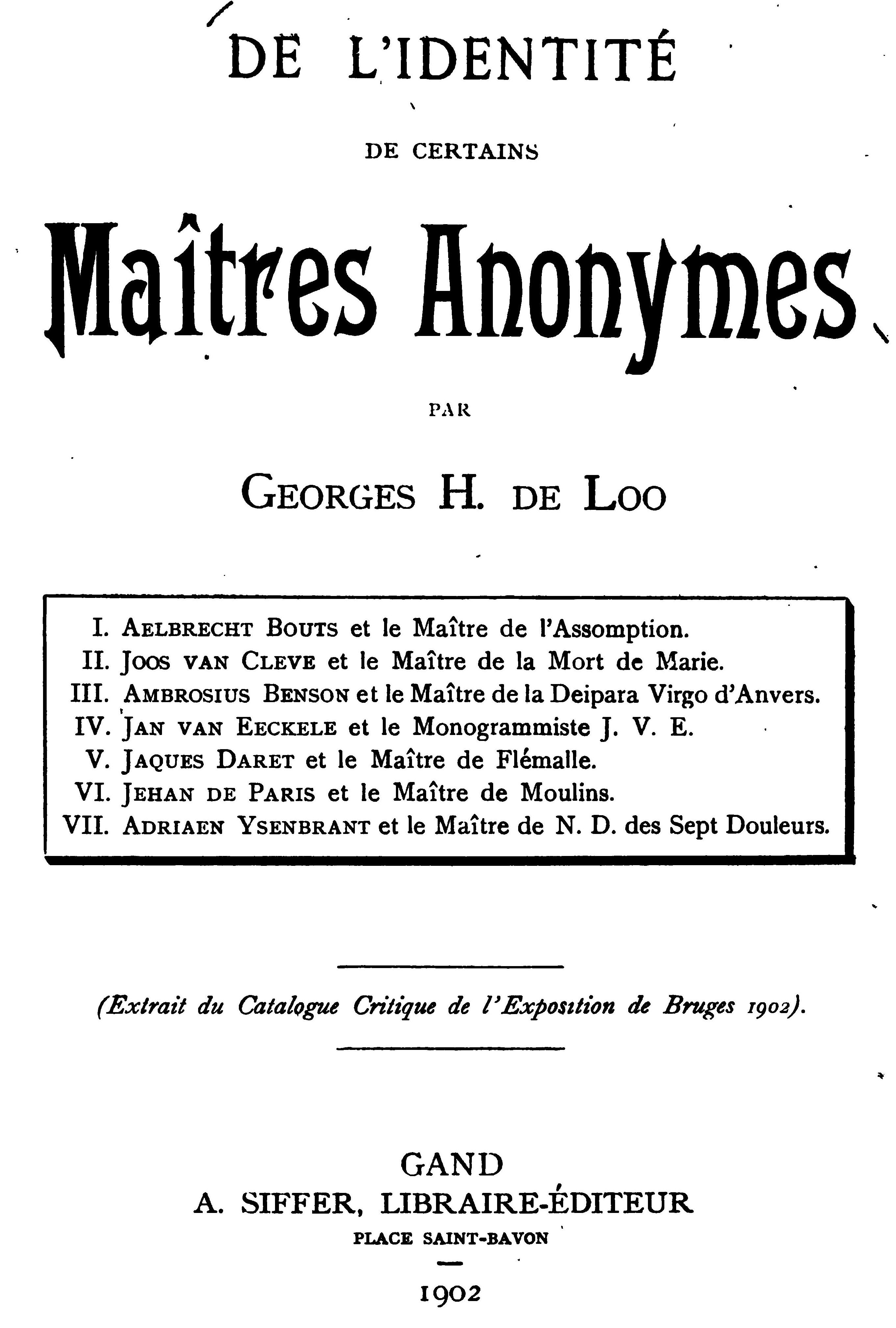 Titlepage of Maitres Anonymes, extract of his Bruges 1902 critical catalog of the art exibition there.